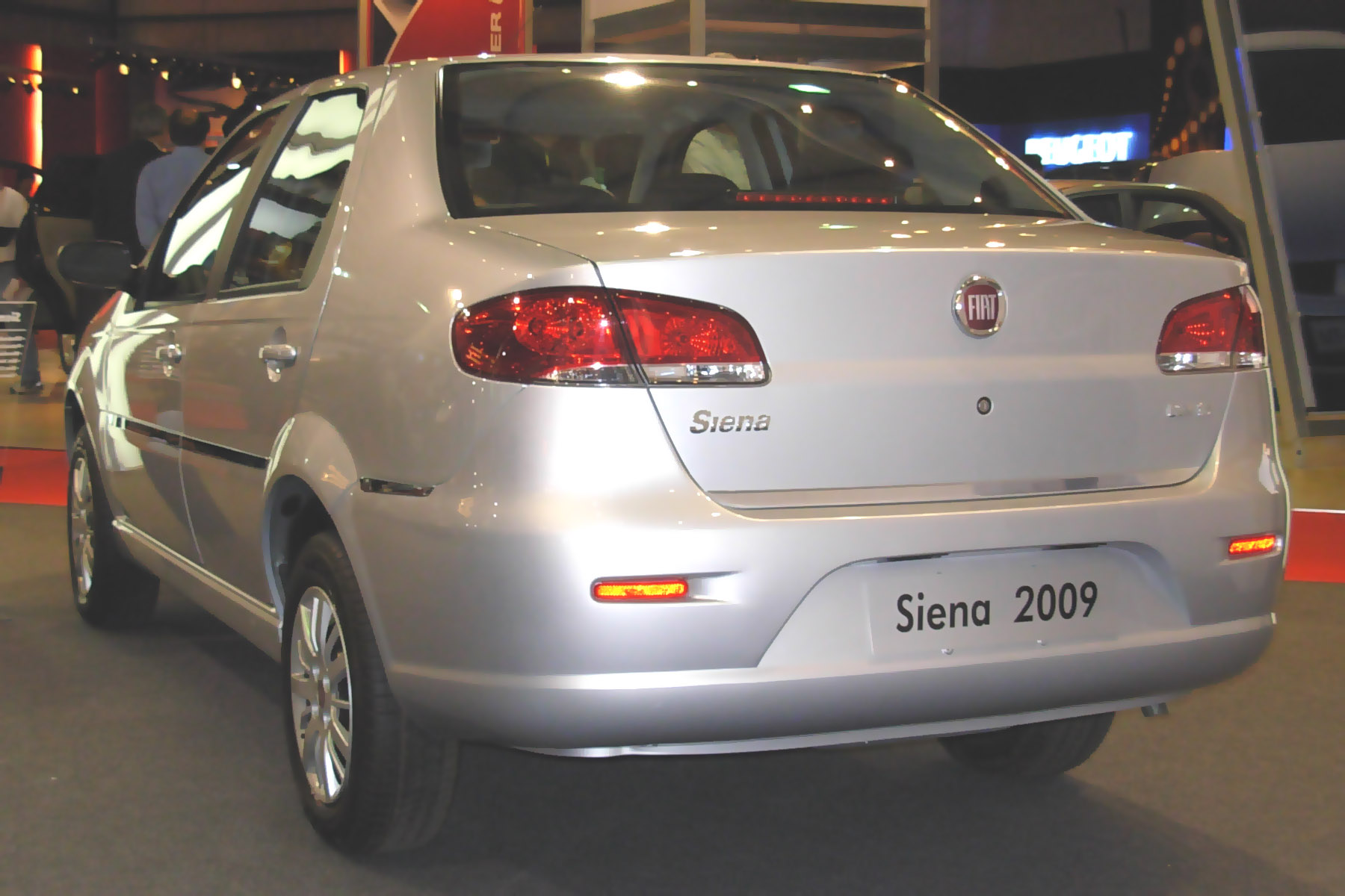 Rear view of a Fiat Siena 2009 at the 2008 Montevideo Motor Show.